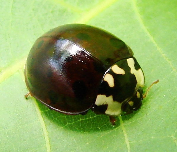 Anatis labiculata - Fifteen-spotted Lady Beetle, Cross Plains, WI, USA